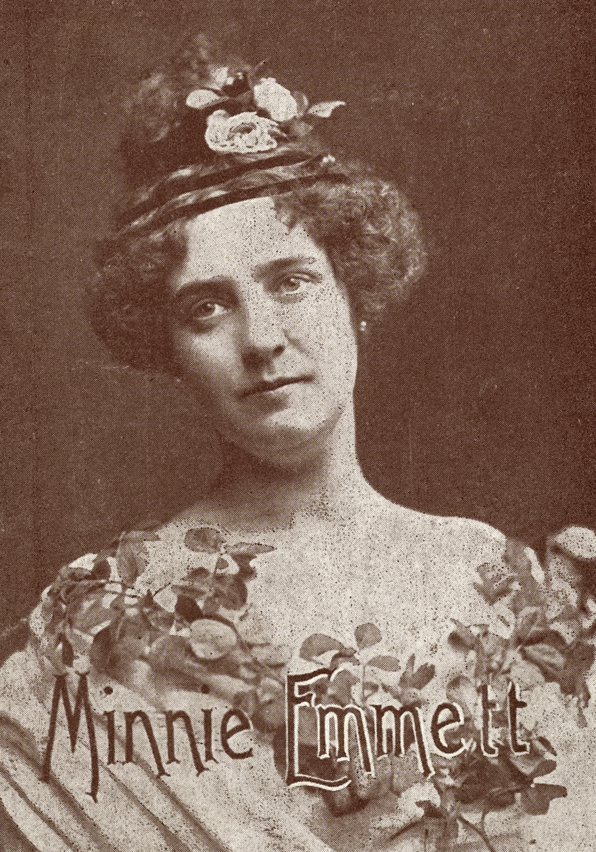 Portrait of singer and recording pioneer Minnie Emmett, published in sheet music for "A Rose with a Broken Stem", 1901.